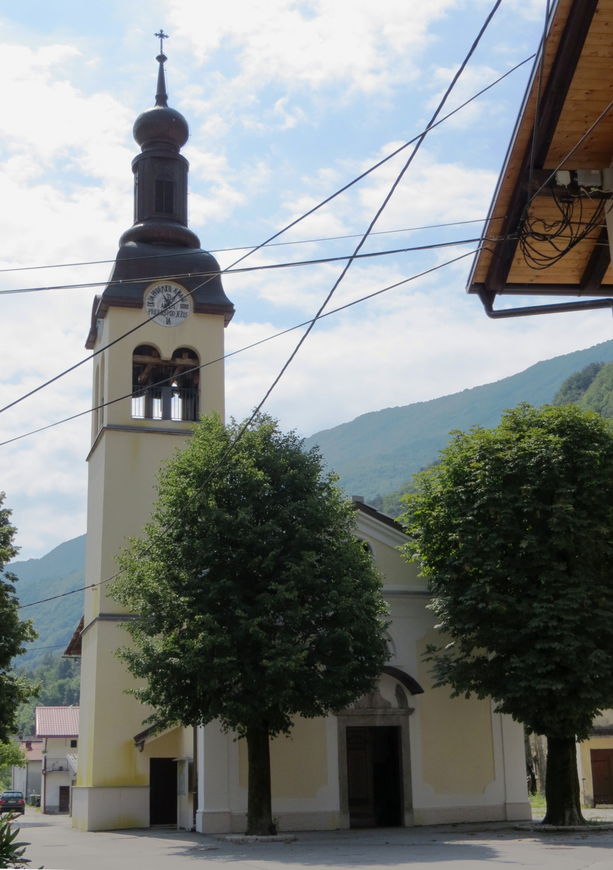 Saint Florian's Church in Srpenica, Municipality of Bovec, Slovenia